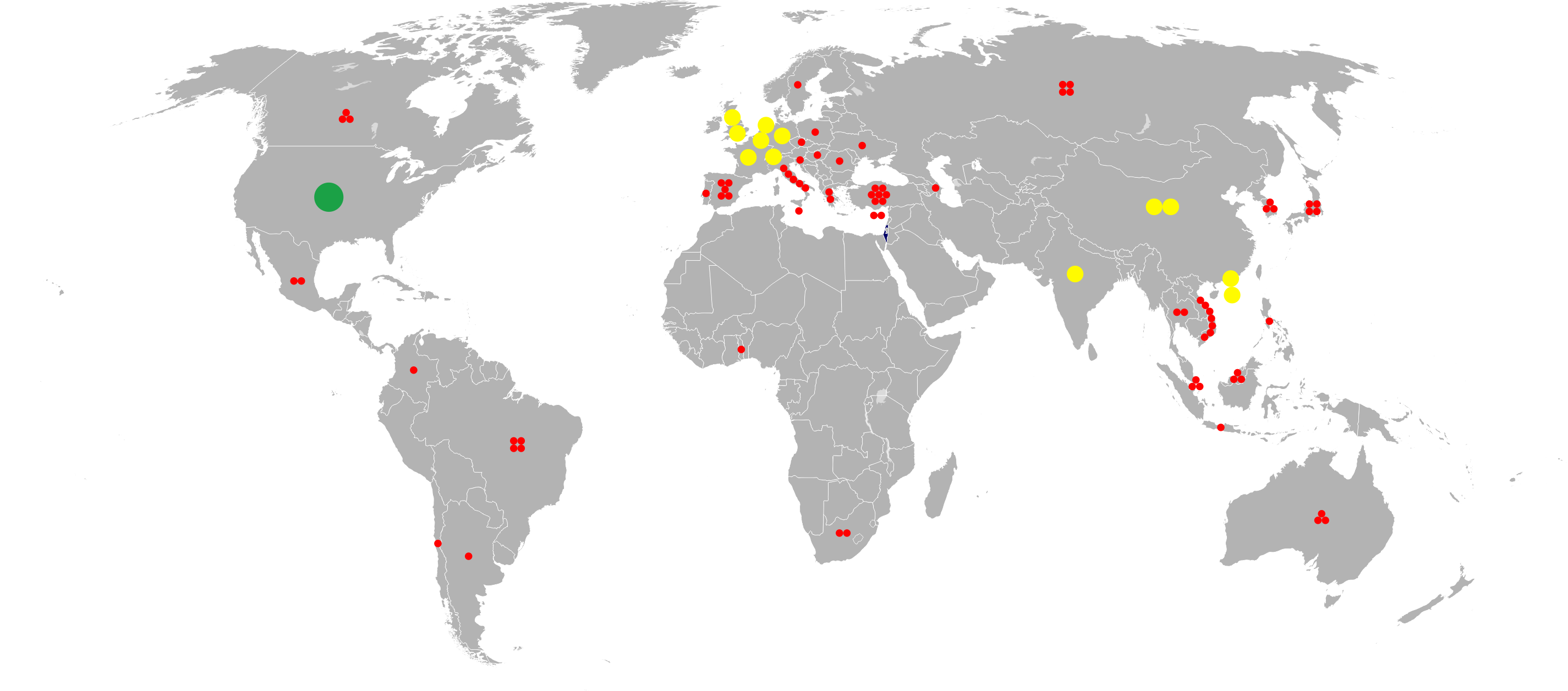 Bubble map of Israeli exports, based on 2016 data. Blank map used: File:BlankMap-World-v2.svg Map with older data: File:2006Israeli exports.PNG